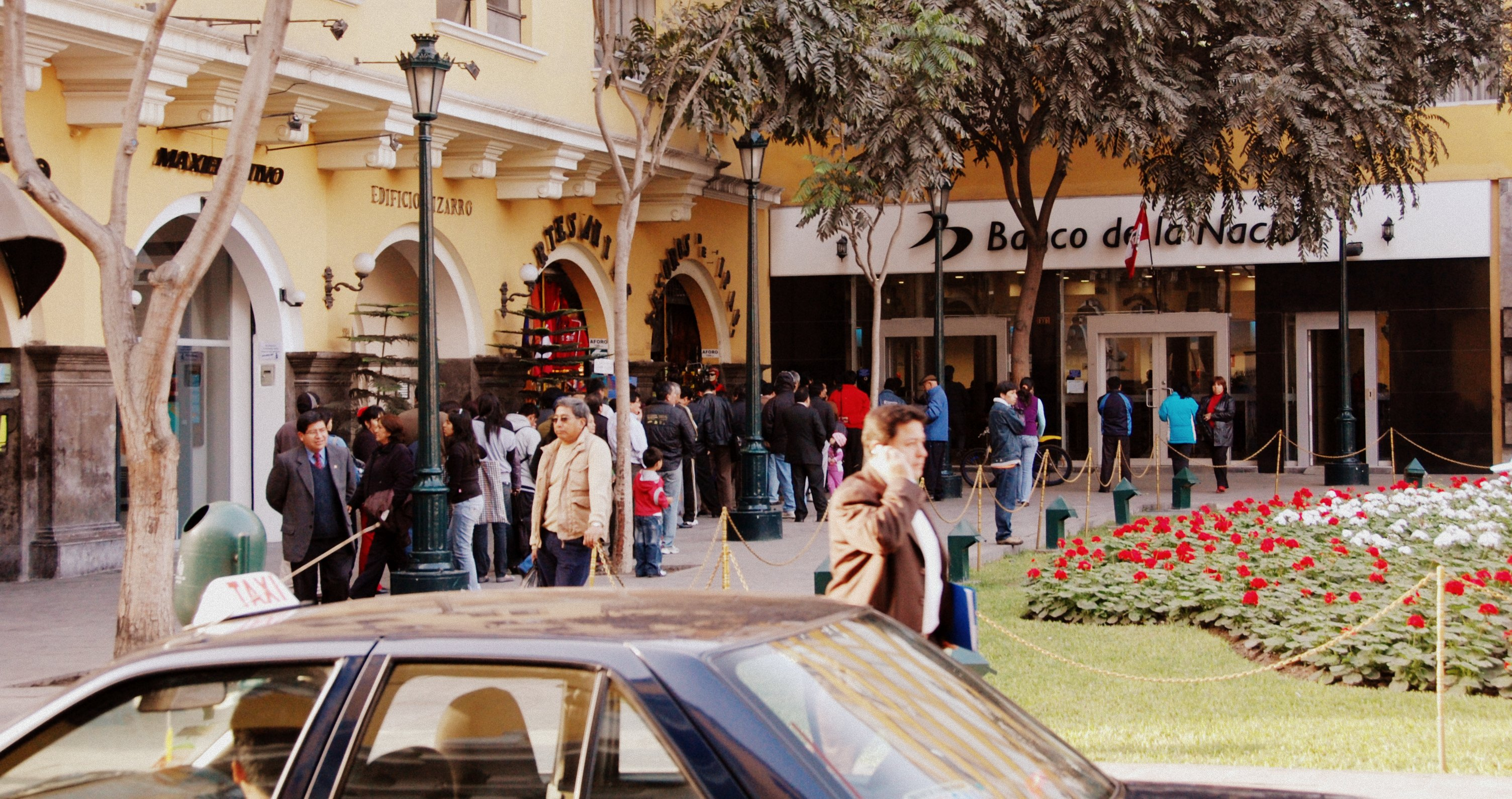 A common sight in Lima is how its residents line up outside banks at all hours. At first we thought this a sign of bank run, but our Peruvian friend clarified for us that this is simply an old way for people to pay their bills and socialize. No bank is in danger.